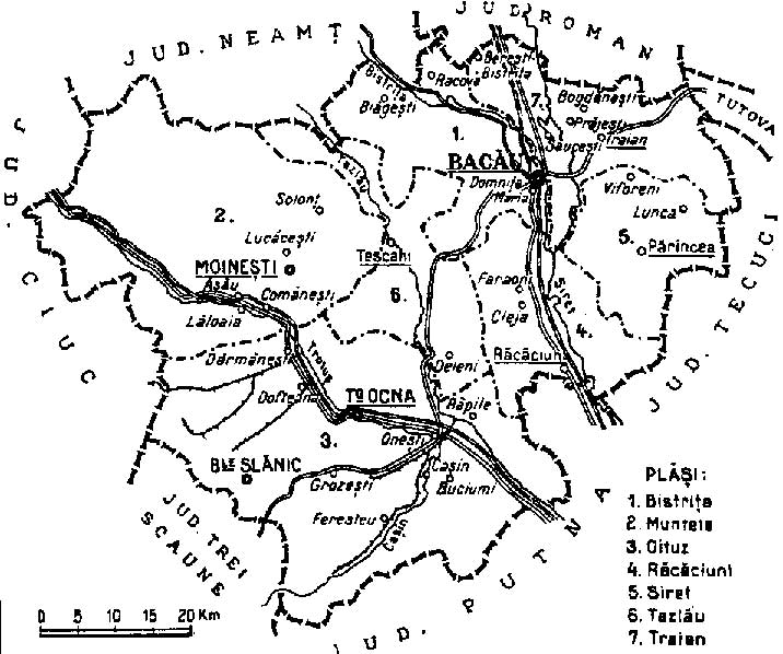 Map of Bacău interwar county, Kingdom of Romania (1938).